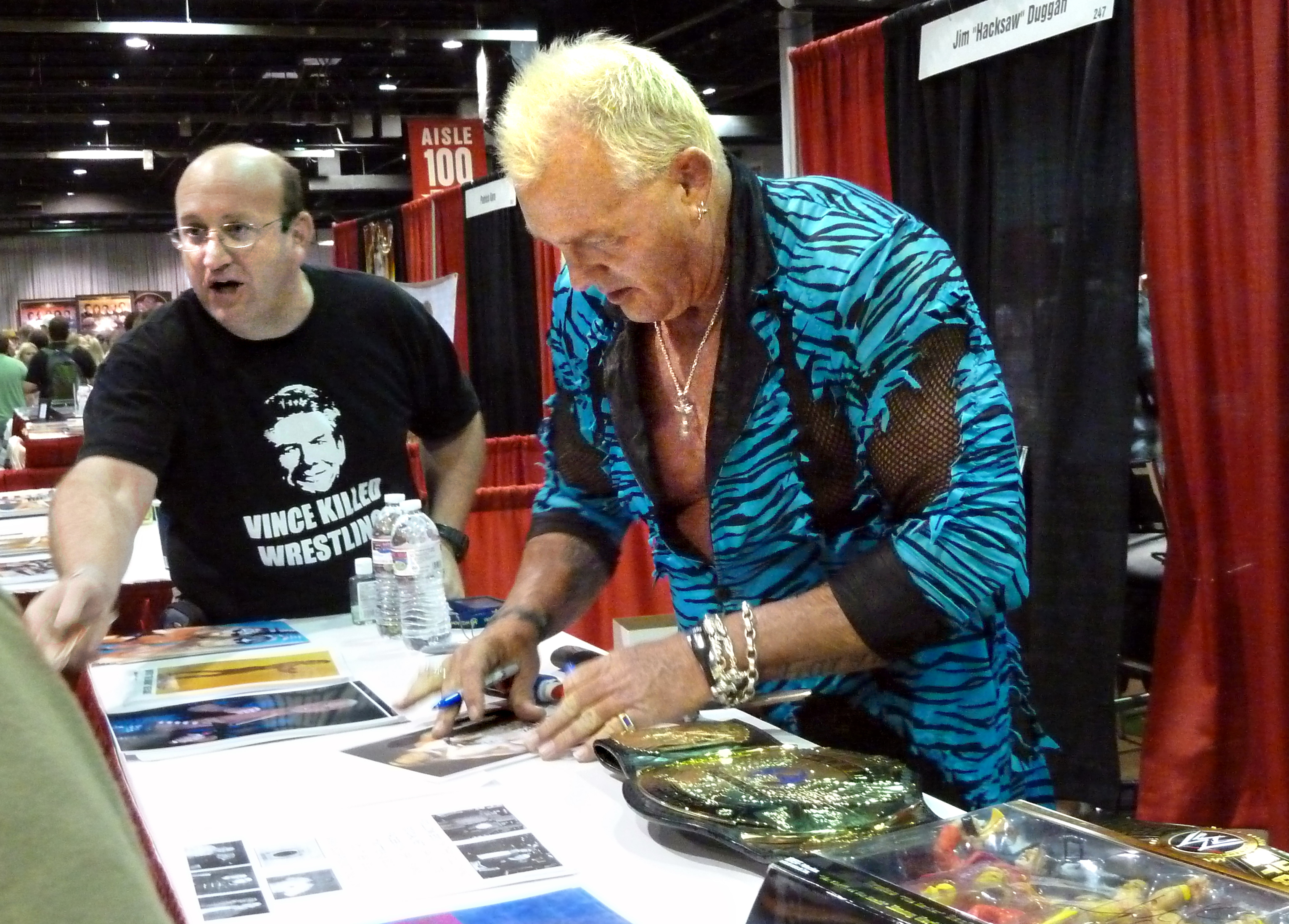 Brutus Beefcake Comic conn 2013